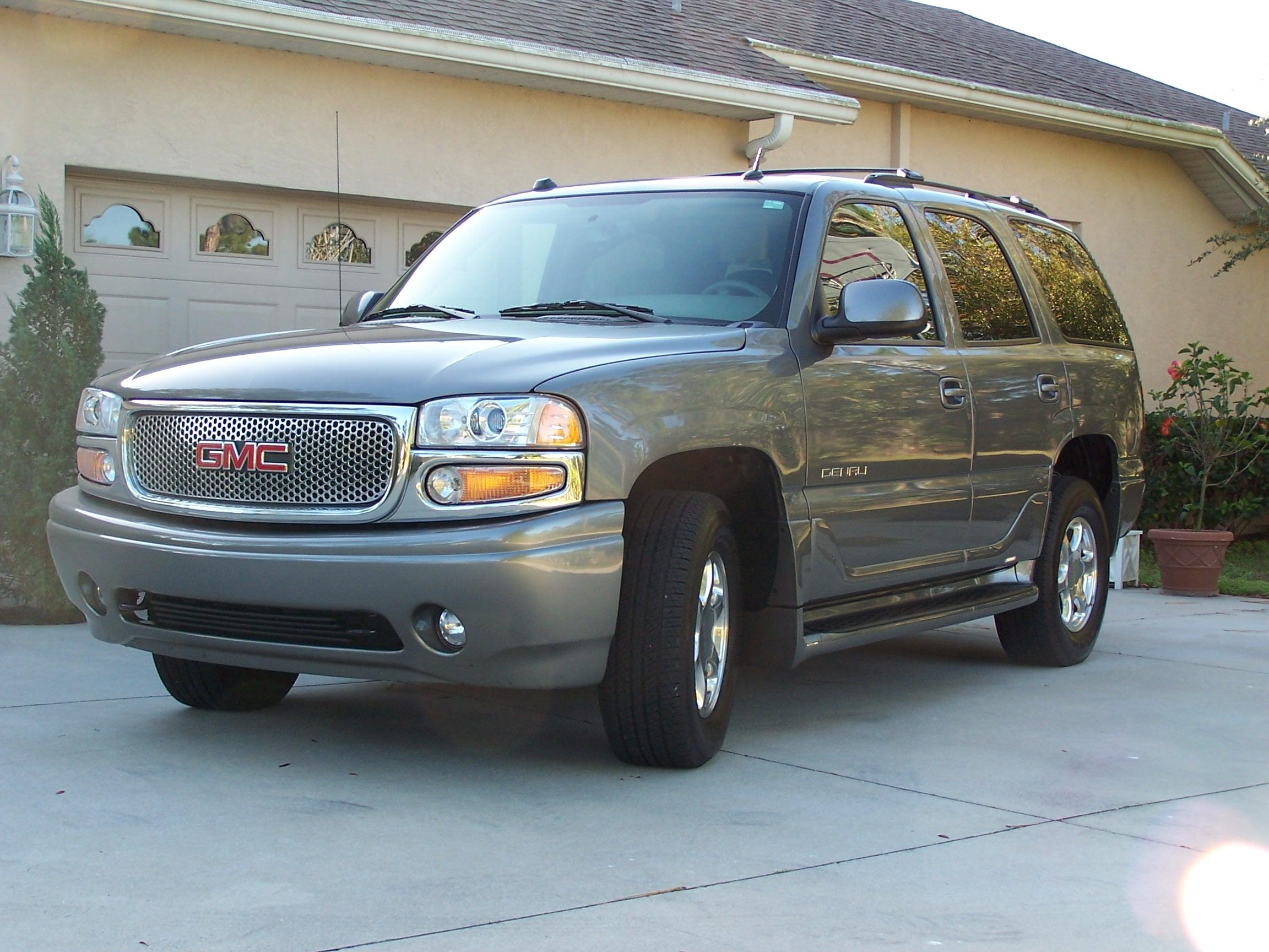 2005 GMC Yukon Denali Photographed in Bradenton, FL.